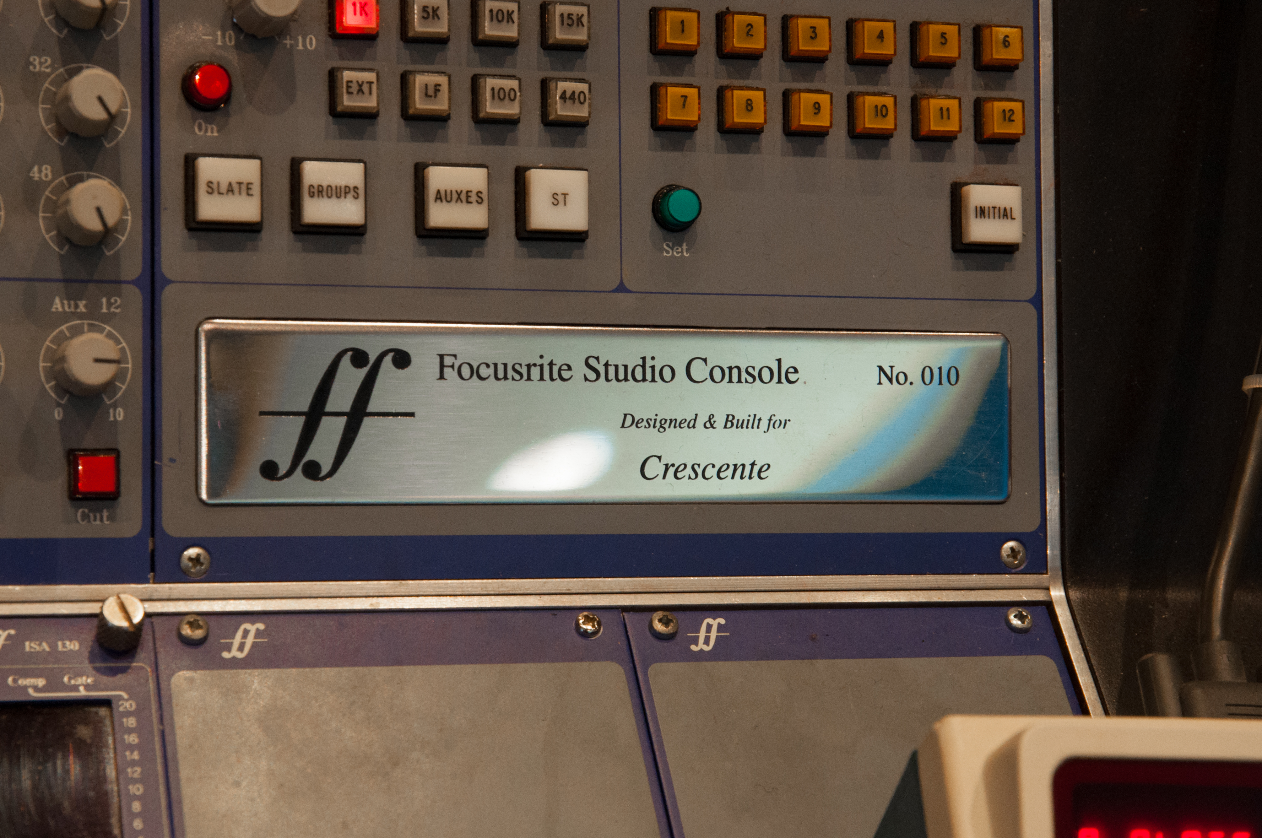 10 Plate of Focusrite Studio Console @ Sound City Setagaya DSC 1813